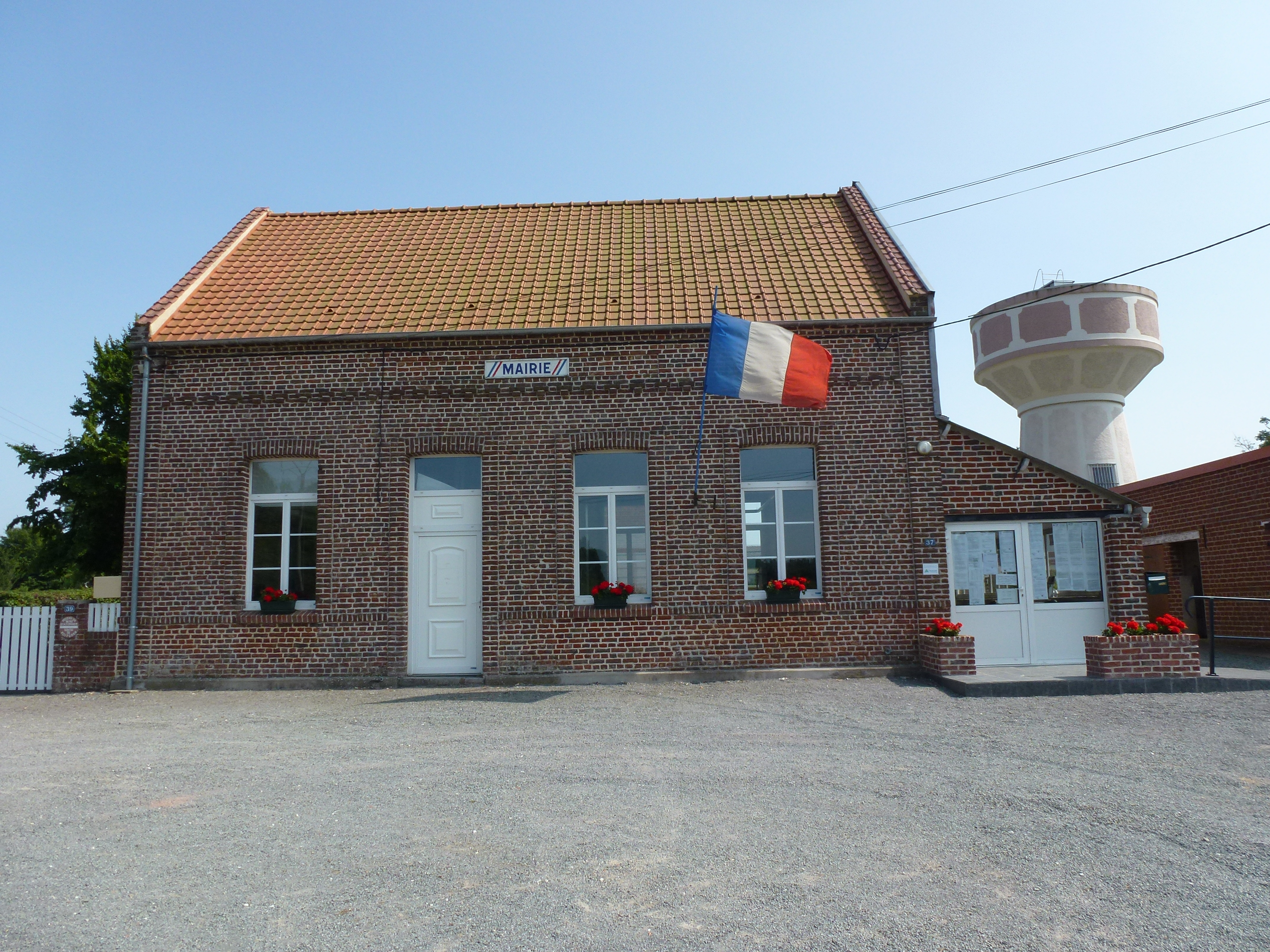 Enguinegatte (Pas-de-Calais, Fr) mairie